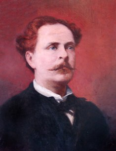 Alejandro Tapia y Rivera Colorized Photo